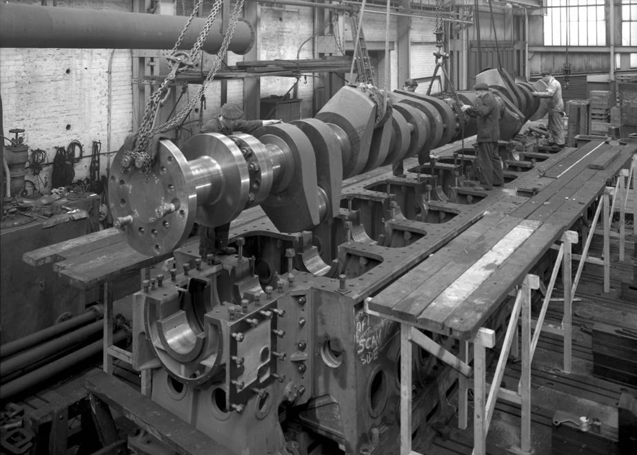 Lowering a crankshaft into position at the Southwick Engine Works of George Clark Ltd, Sunderland, April 1955 (TWAM ref. DT.TUR/2/13527E). Sunderland has a remarkable history of innovation in shipbuilding and marine engineering. From the development of turret ships in the 1890s and the production of Doxford opposed piston engines after the First World War through to the designs for Liberty ships in the 1940s and SD14s in the 1960s. Sunderland has much to be proud of. Tyne & Wear Archives cares for tens of thousands of photographs in its shipbuilding collections. Most of these focus on the ships – in particular their construction, launch and sea trials. This set looks to redress the balance and to celebrate the work of the men and women who have played such a vital part in the region’s history. The images show the human side of this great story, with many relating to the world famous shipbuilding and engineering firm William Doxford & Sons Ltd. The Archives has produced (Copyright) We're happy for you to share these digital images within the spirit of The Commons. Please cite 'Tyne & Wear Archives & Museums' when reusing. Certain restrictions on high quality reproductions and commercial use of the original physical version apply though; if you're unsure please